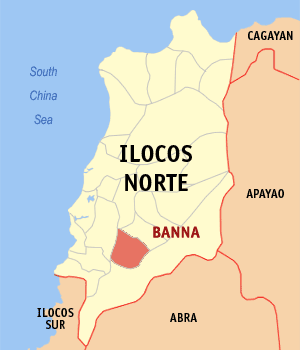 Map of Ilocos Norte showing the location of Banna